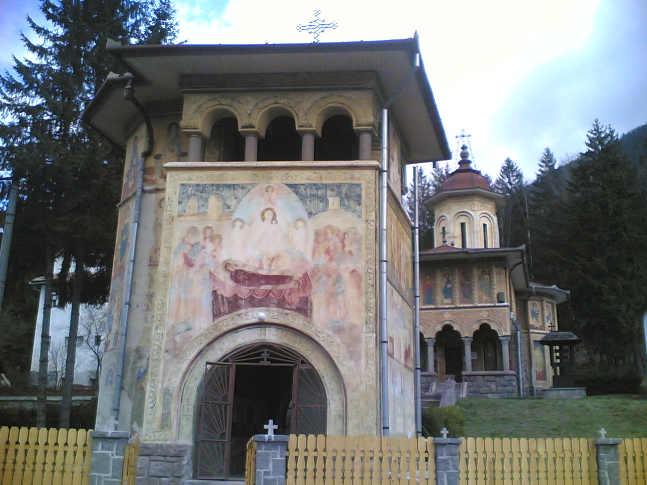 erdeniss